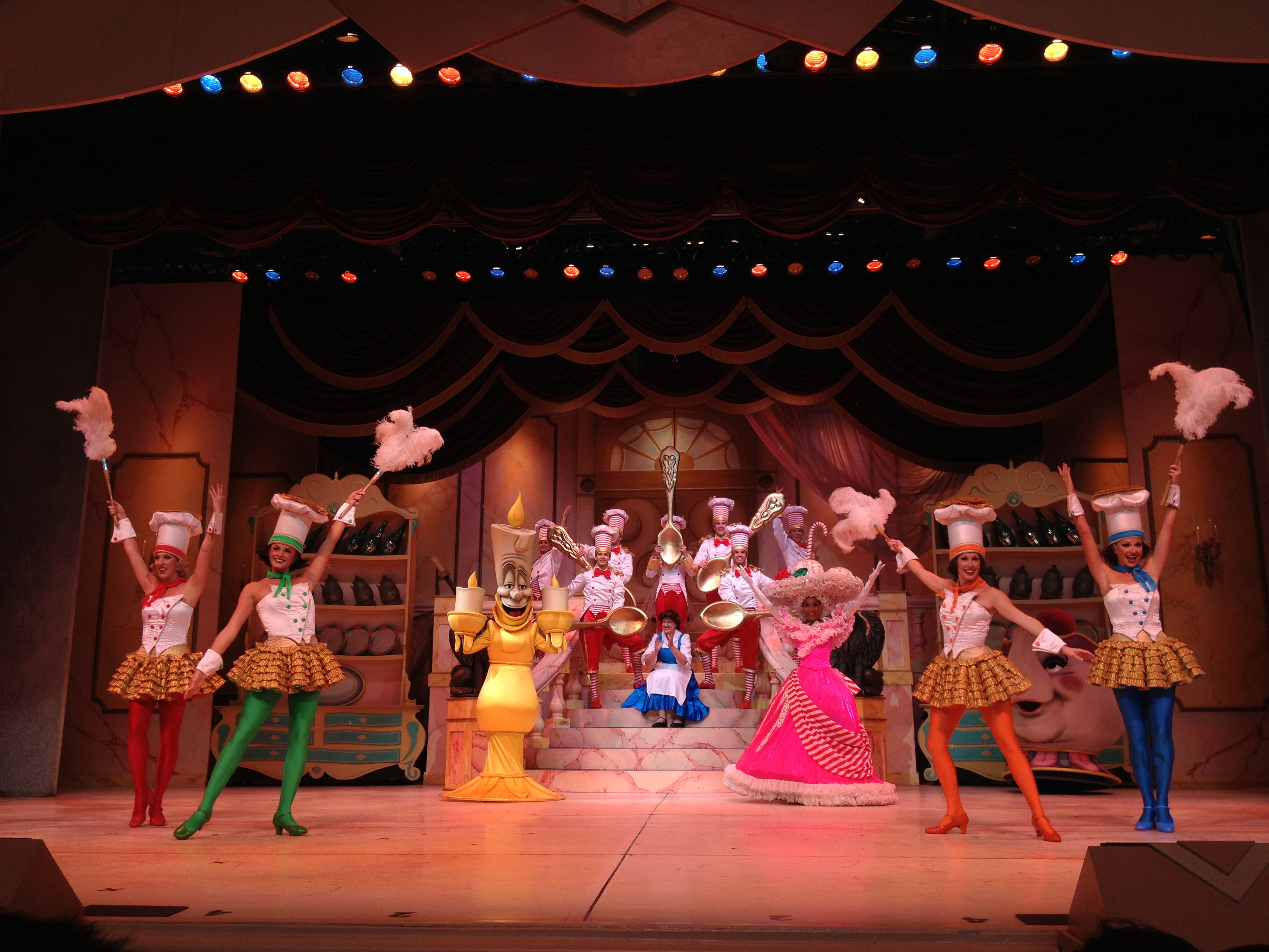 This is the finale of the "Be Our Guest" segment of Beauty and the Beast Live on Stage at Disney's Hollywood Studios in Orlando, Florida.